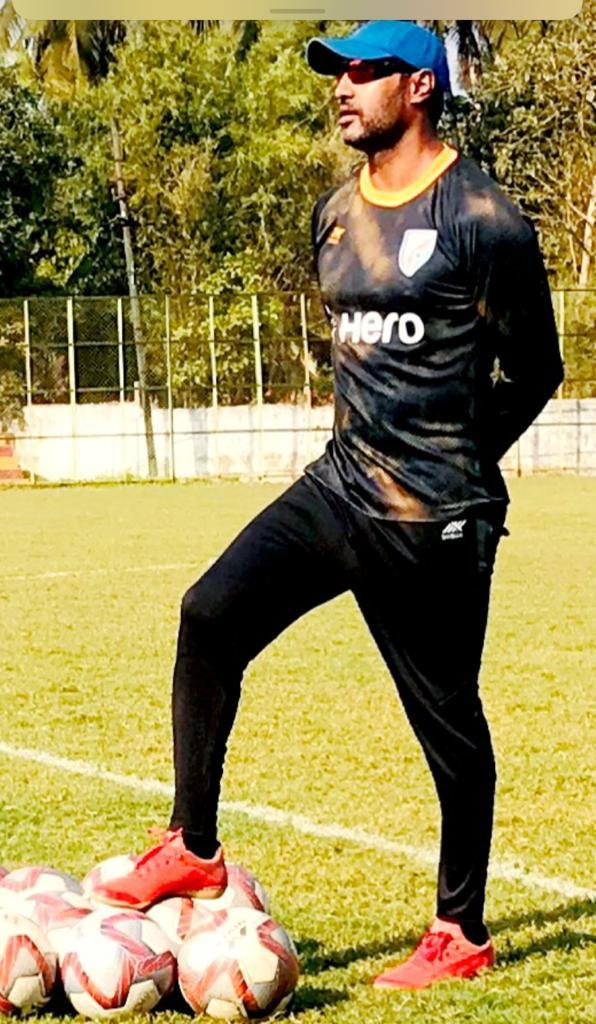 Current U-19 Indian Football Coach